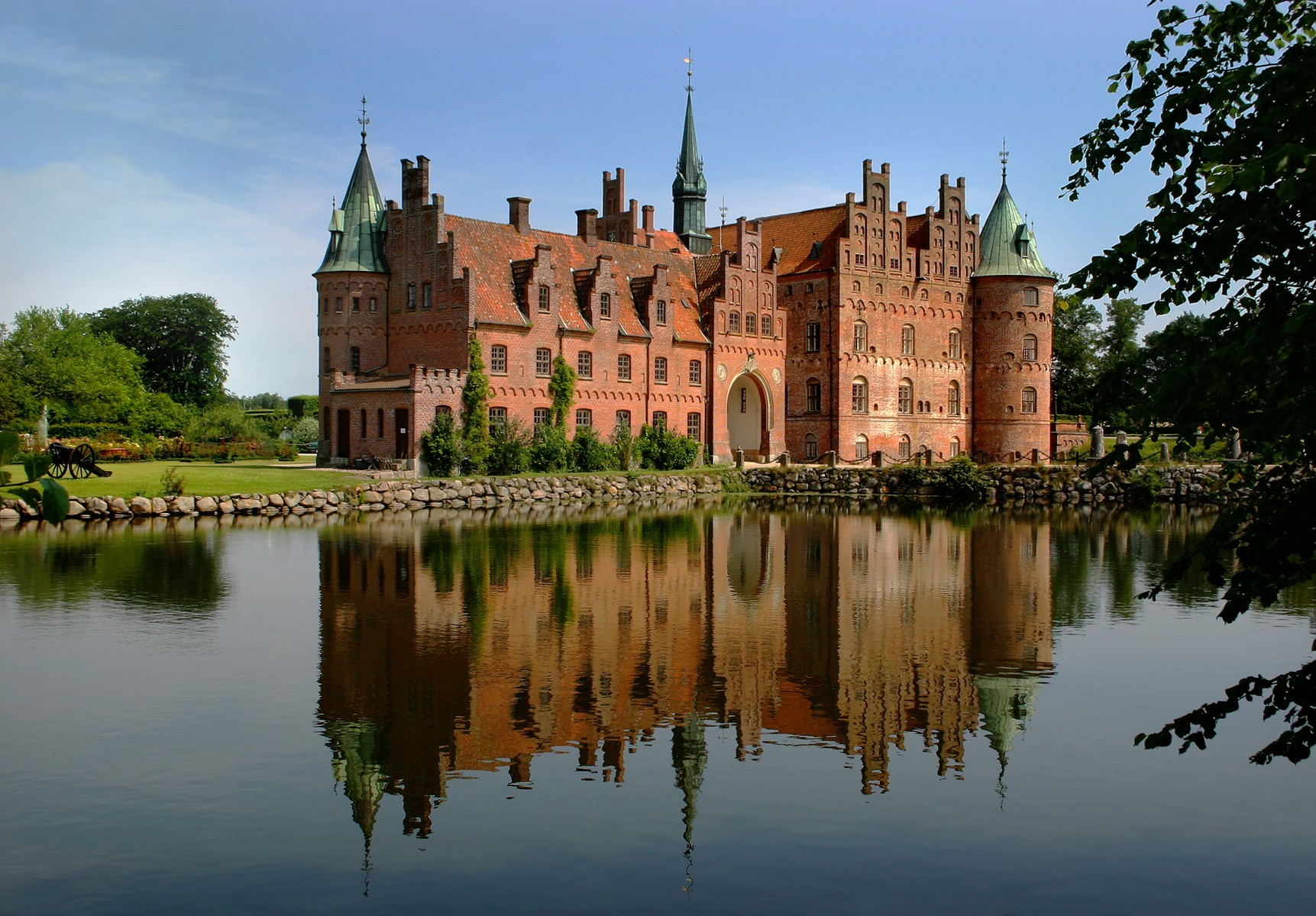 Egeskov Castle, Denmark